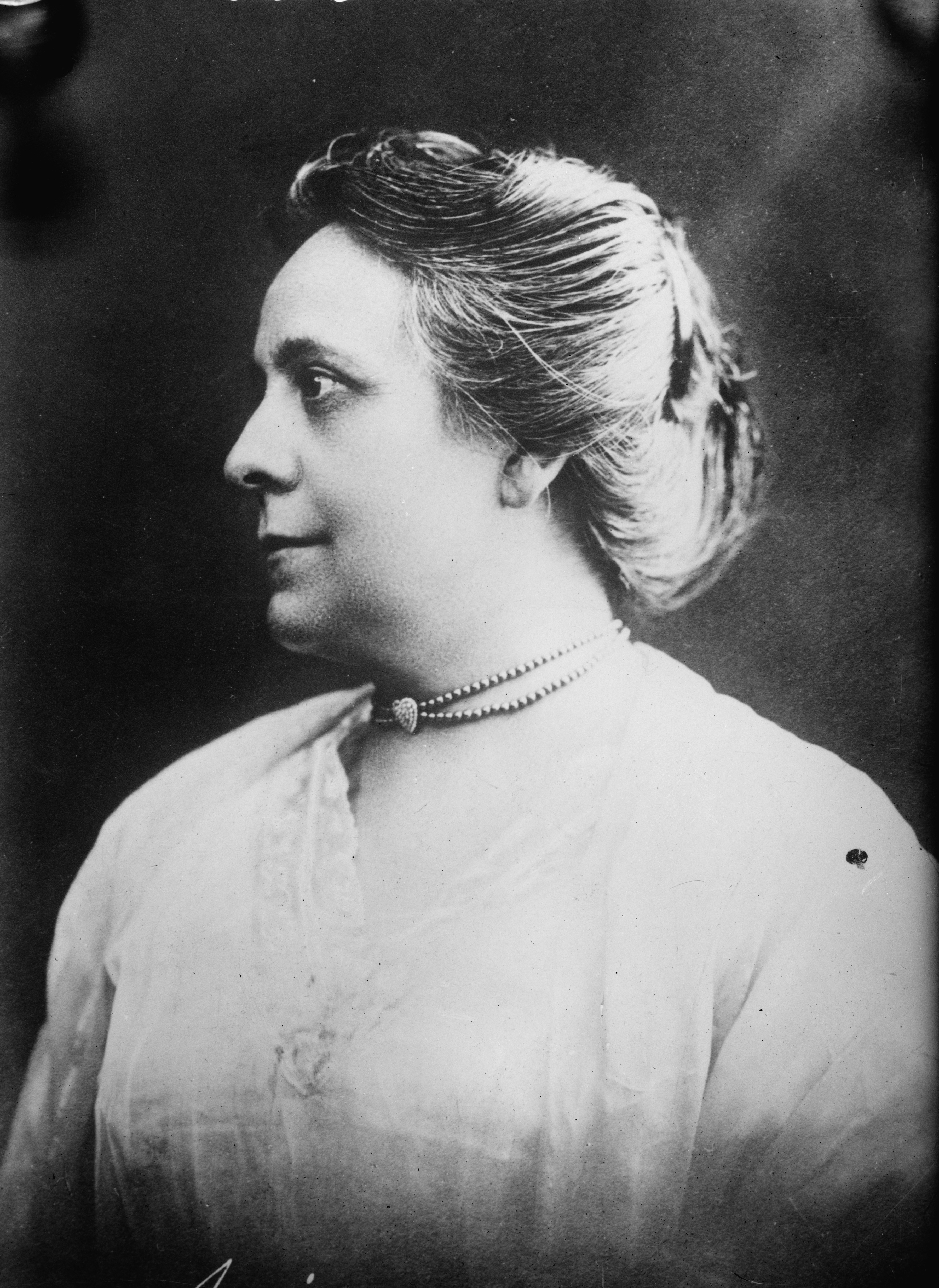 Jessie Gregg aka Jessie Stillman Kelly married Edgar Stillman Kelley. She was born in 1865. Bain News Service,, publisher. Jessie Stillman Kelly [between ca. 1910 and ca. 1915] 1 negative : glass ; 5 x 7 in. or smaller. Notes: Title from unverified data provided by the Bain News Service on the negatives or caption cards. Forms part of: George Grantham Bain Collection (Library of Congress). Format: Glass negatives. Repository: Library of Congress, Prints and Photographs Division, Washington, D.C. 20540 USA, General information about the Bain Collection is available at Persistent URL: Call Number: LC-B2- 3142-12